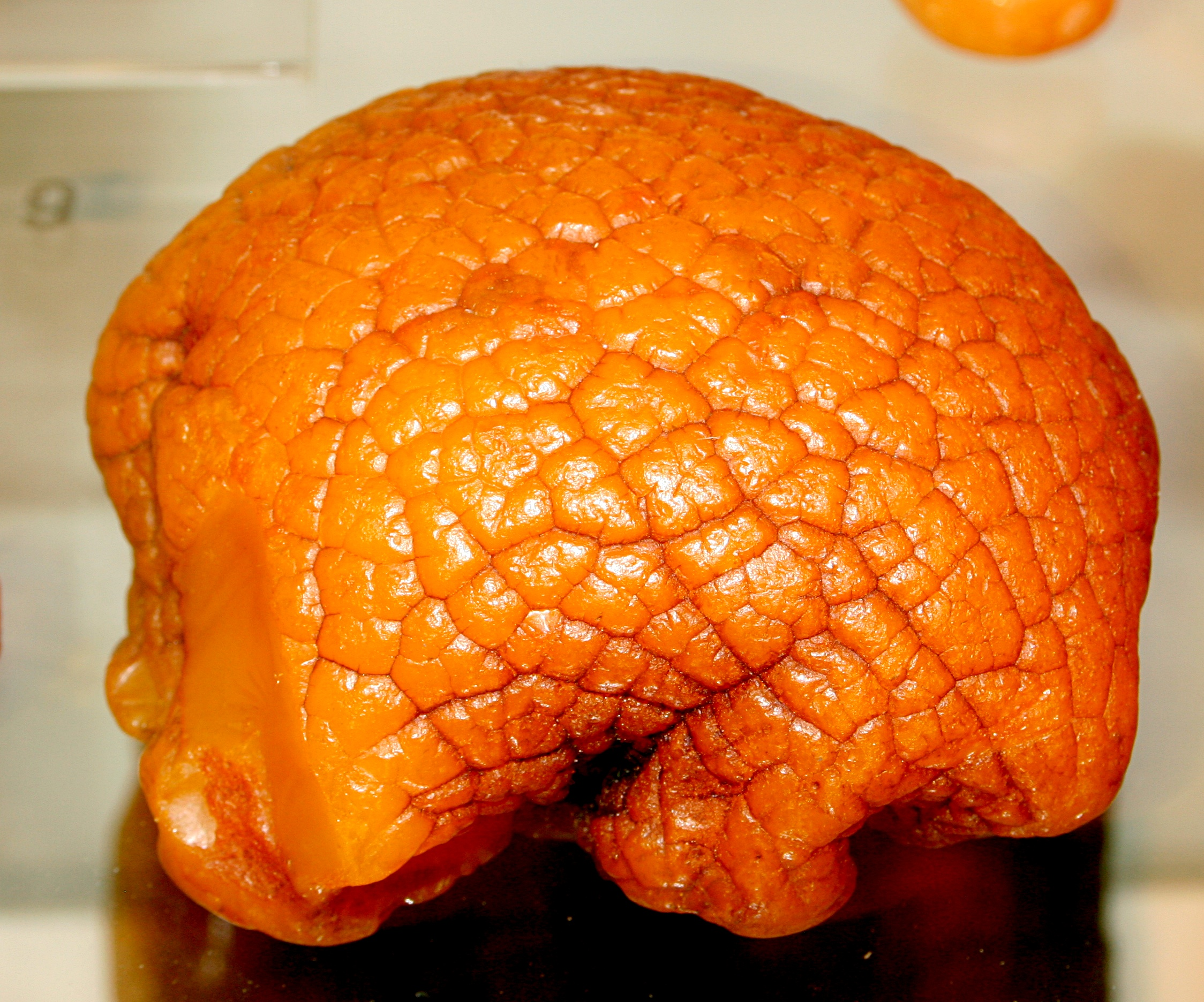 An exhibition in Archaeological Museum in Gdańsk. This photo of Kashubia, Pomerelia and Żuławy Wiślane was taken during Wikiekspedycja 2010 set up by Wikimedia Polska Association. You can see all photographs in category Wikiekspedycja 2010. The making of this document was supported by Wikimedia Polska.